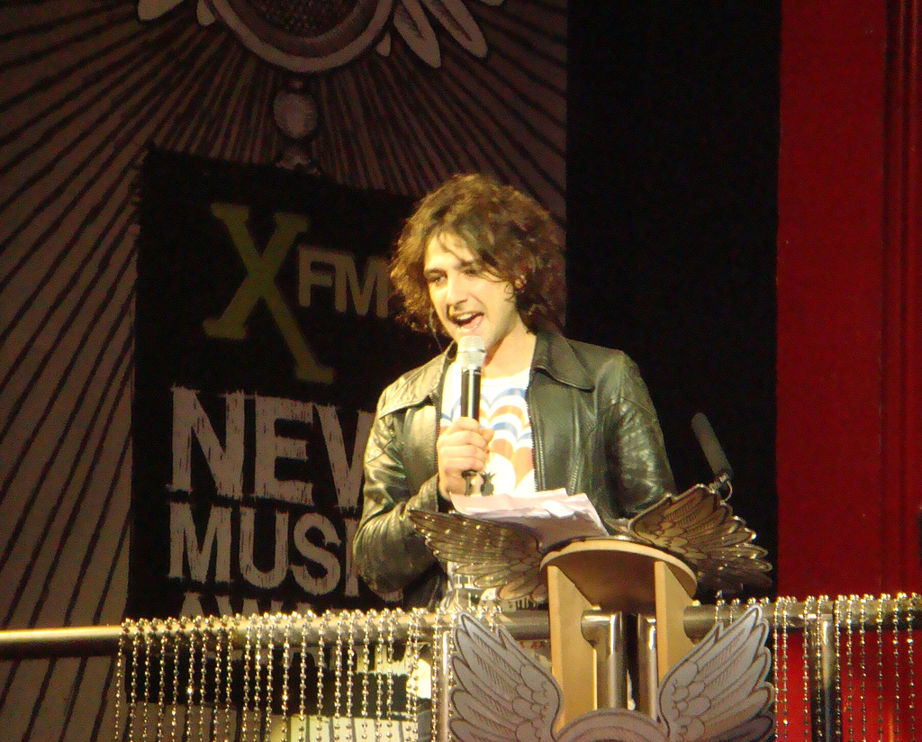 British music presenter Alex Zane at the XFM Awards